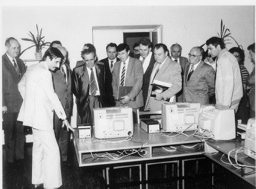 György Aczél is at University of Szeged. (Laboratory of Computers)